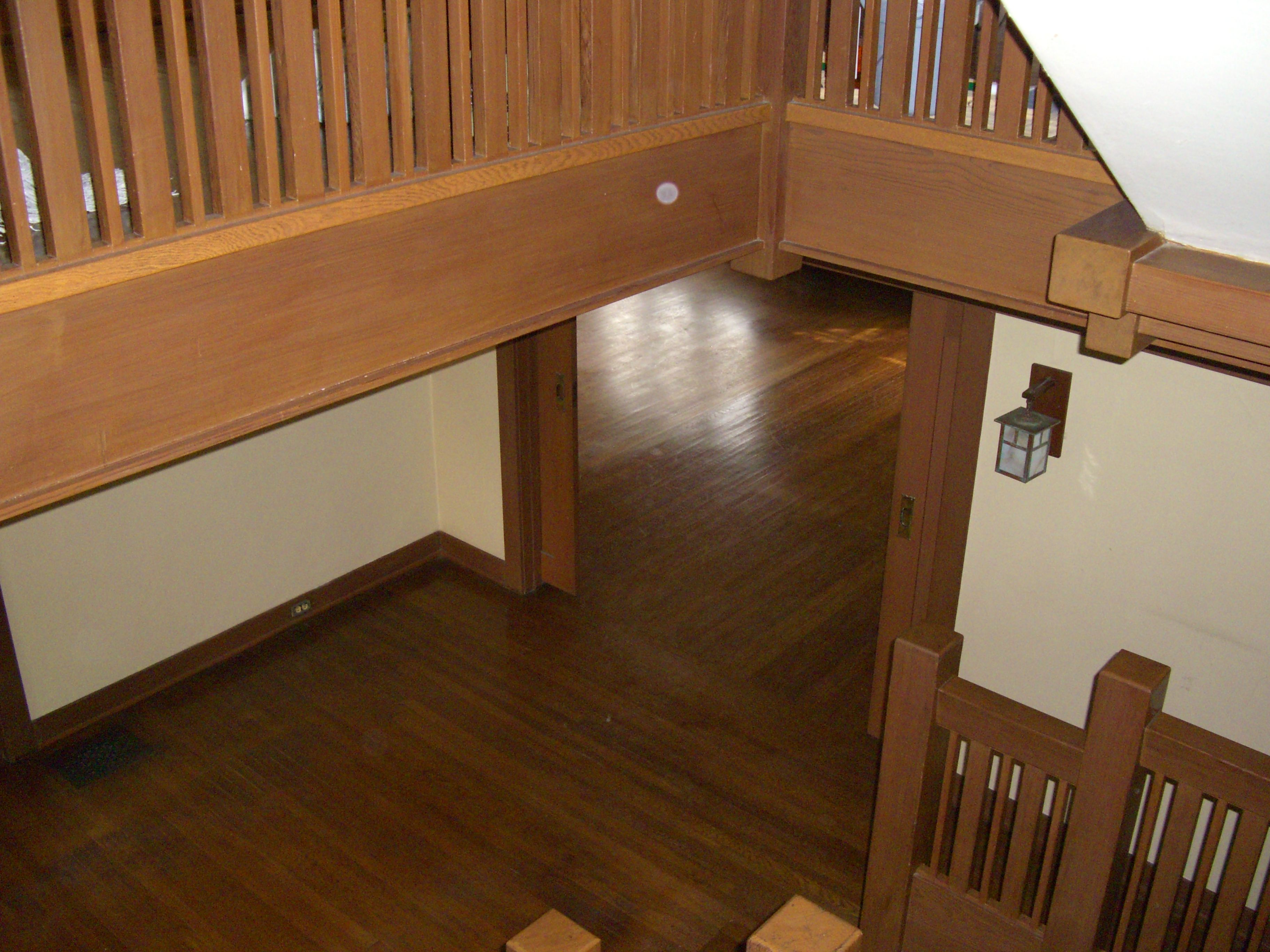 view of the Greene & Greene Spinks House (Pasadena, CA) from the stairway looking into the entry hall